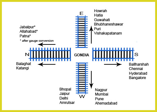 rail lines from gondia